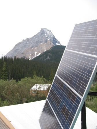 Solar_Panel